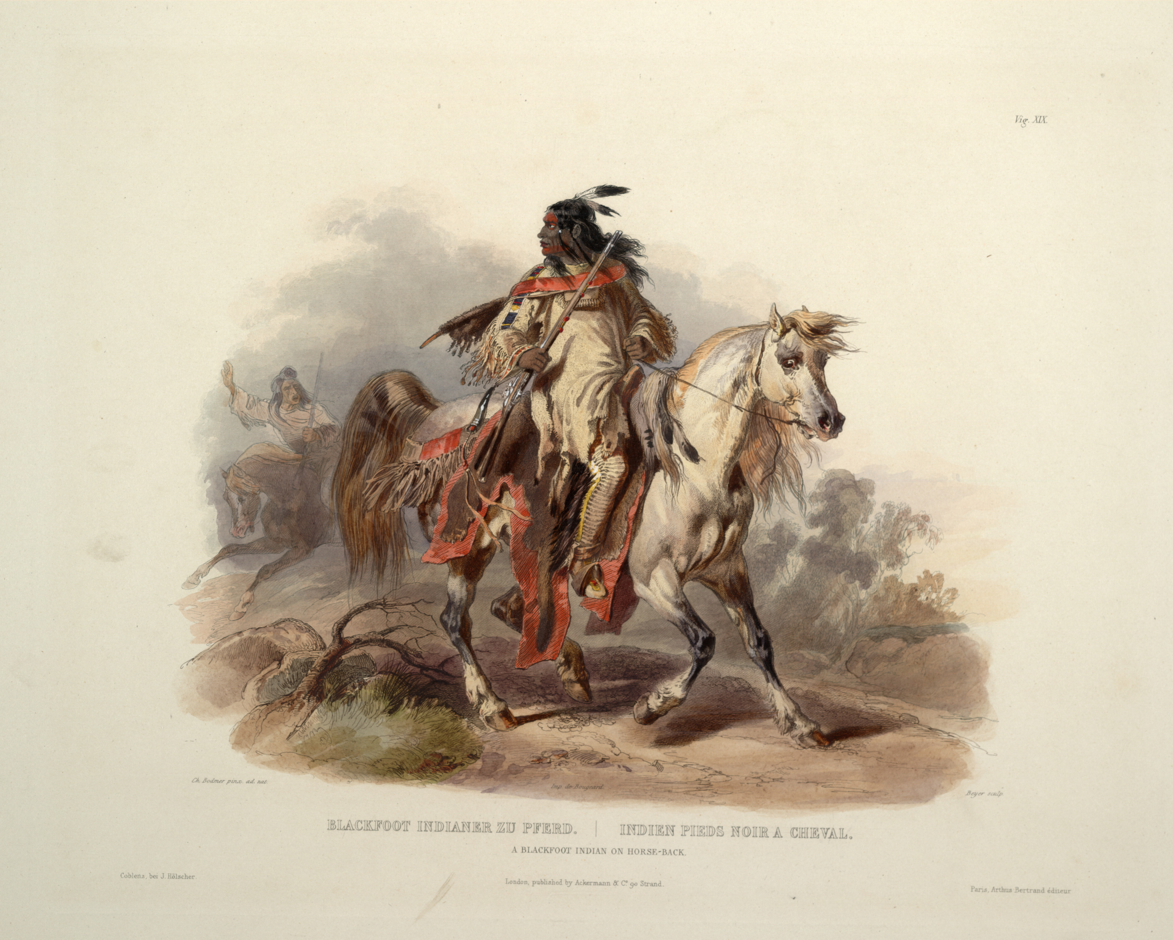 A Blackfoot indian on horseback